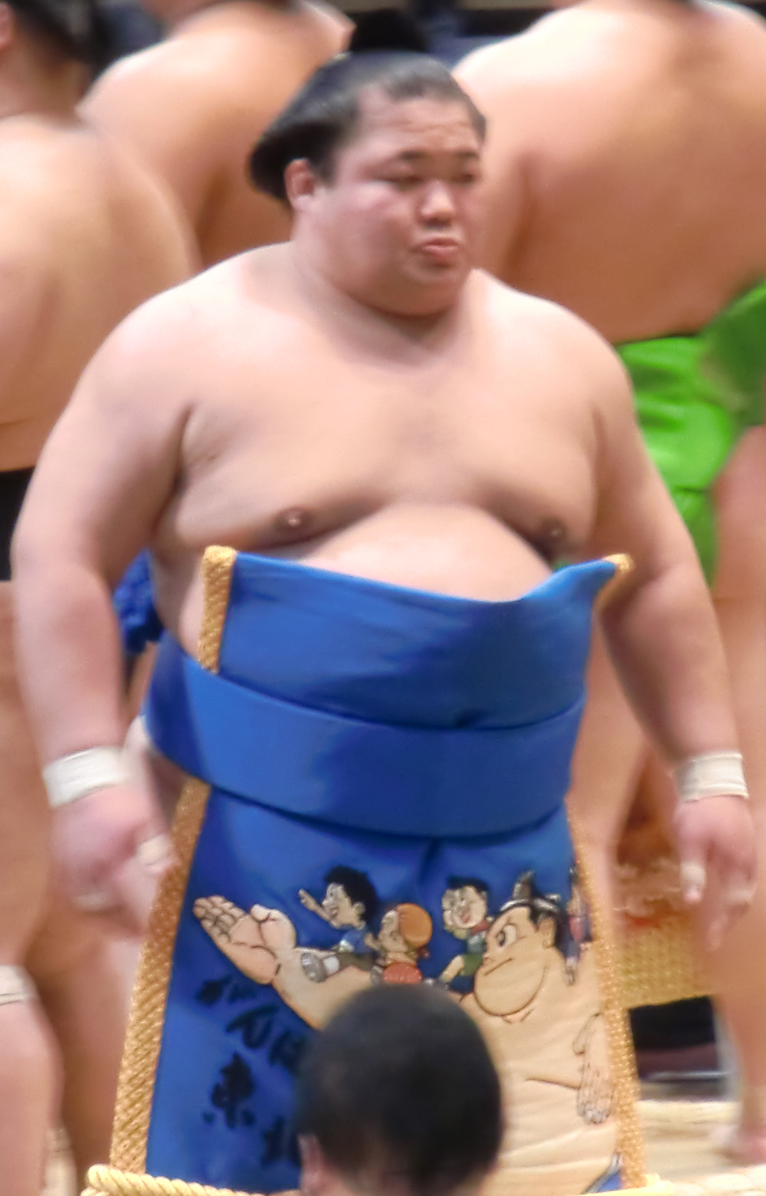 taken at Nov 2011 tournament